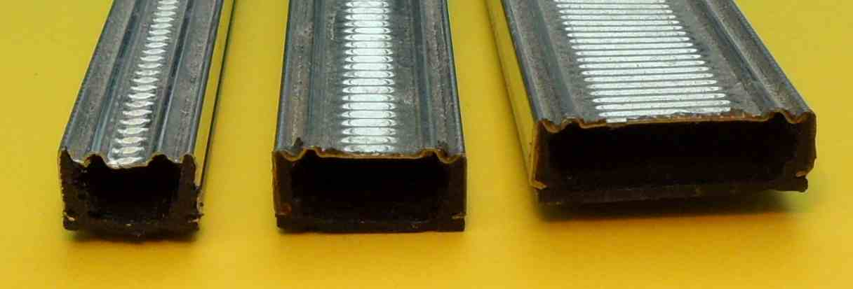 Spacers for insulating glazing: 10 / 14 / 20 mm